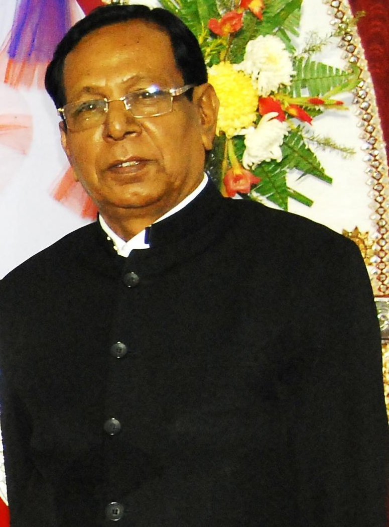 Profile Picture Ajoy Biswas